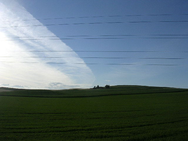 Approaching warm front! The view looks towards Dodd Hill from beneath the pylons which cross the minor road in the east of the grid box. The high cirrus cloud heralds the approach of a front and rain tomorrow!